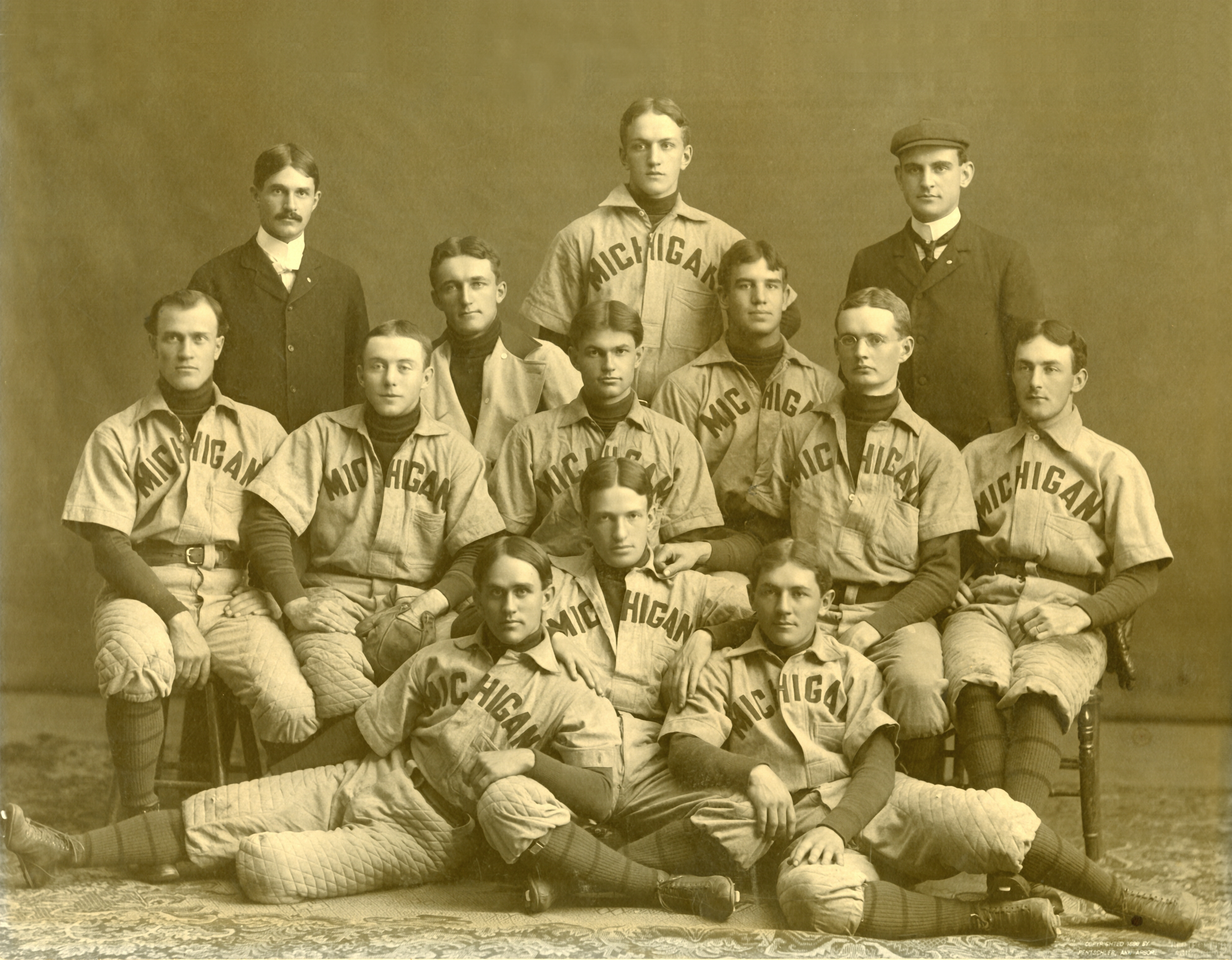 Team portrait of 1899 University of Michigan baseball team from the 1900 Michiganensian. Back row: Charles Baird, Neil Snow, Harold H. Emmons Third row: H.T. Clarke, Herbert E. Lehr Second row: Guy Blencoe, Edwin McGinnis, capt. Guy W Lunn Guy A. Miller, Will Earl Sullivan Front row: David M. Matteson, Morgan L. Davies, Marion B. Flesher